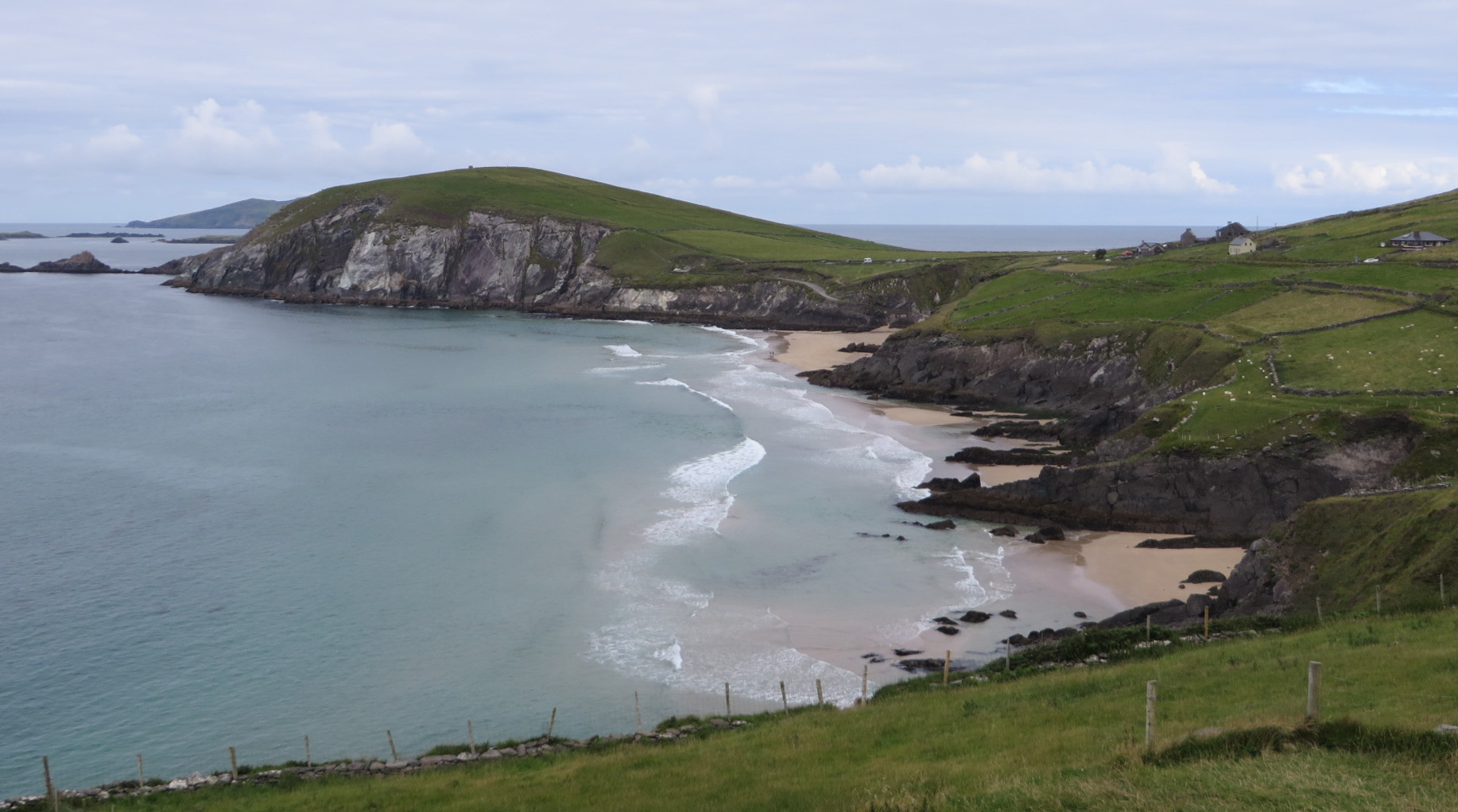 Sandy beaches near Dunmore Head, Digle Peninsula, Ireland